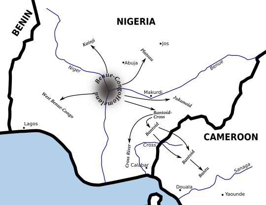 Dispersal of the Benue-Congo languages from their homland, radially, and subsequent spread of Bantoid-Cross southwards